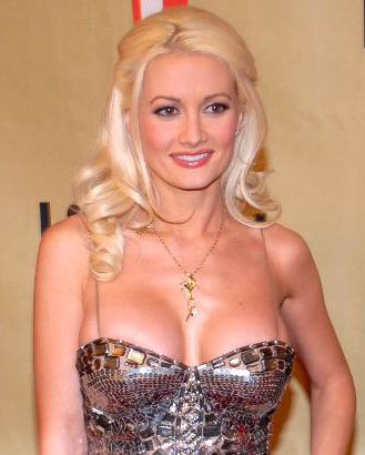 Holly Madison at L.A. Direct Magazine's Holiday Party